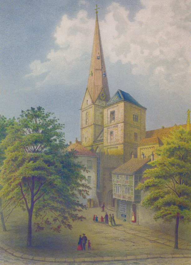 Church Unser Lieben Frauen in Bremen, Germany. Watercolor painting from the year 1876 by C. Junghans .